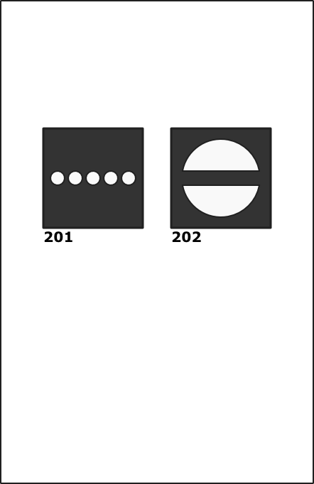 Diagrams of railway signals in Switzerland